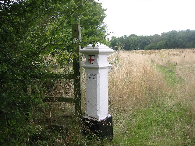 Coal Tax Post. Coal Tax Post (Nail Number 181 On the edge of Little Farleigh Green on footpath to Fickleshole. About 200 yards northeast of the point where Farleigh Court Road becomes Scotshall Lane and about 800 yards west of Fickleshole. Shown on as "City Post".